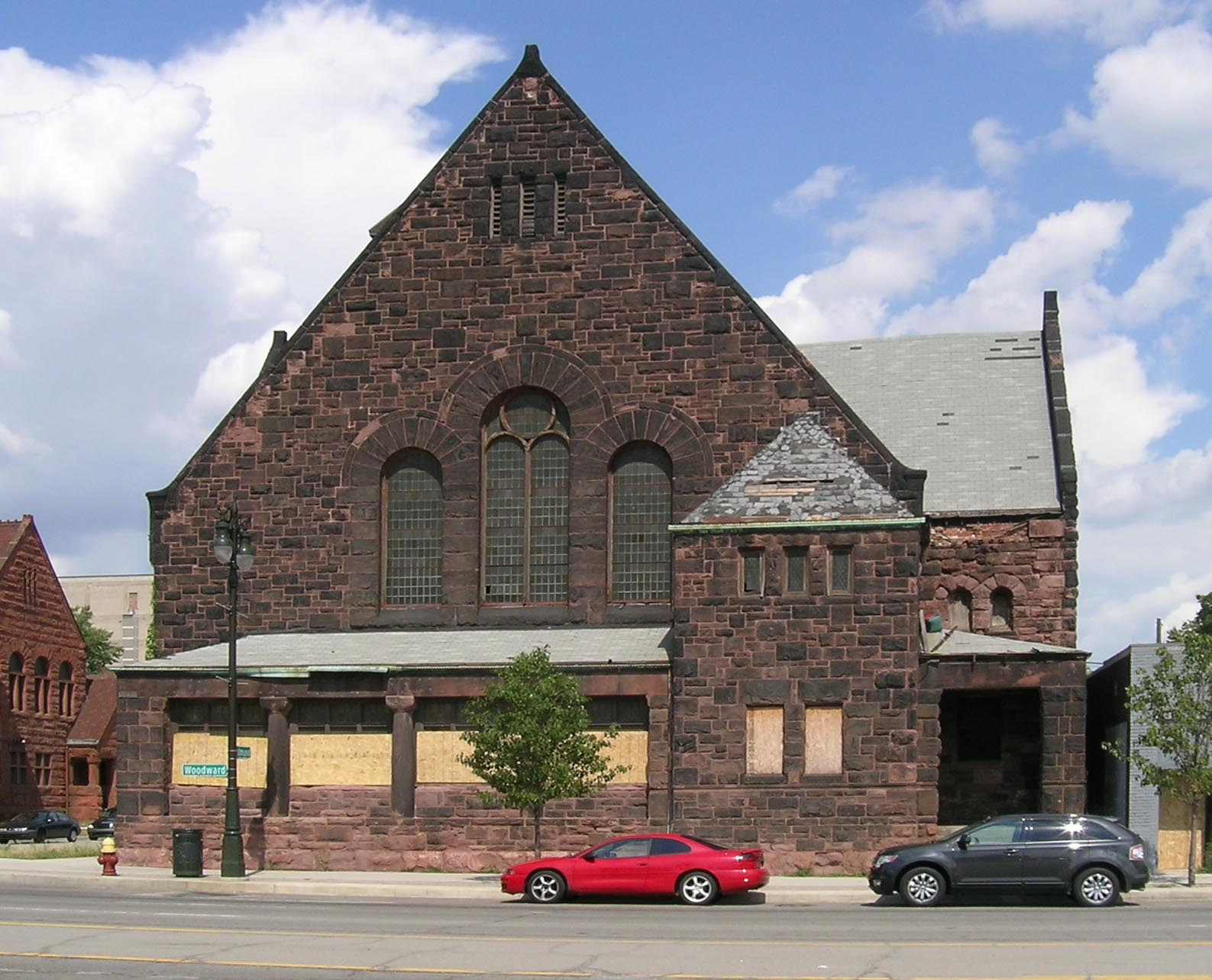 First Unitarian Church of Detroit. The stone church was built in 1890, in the Romanesque revival Richardsonian Romanesque style. A contributing property in the Brush Park Historic District, and on the National Register of Historic Places.